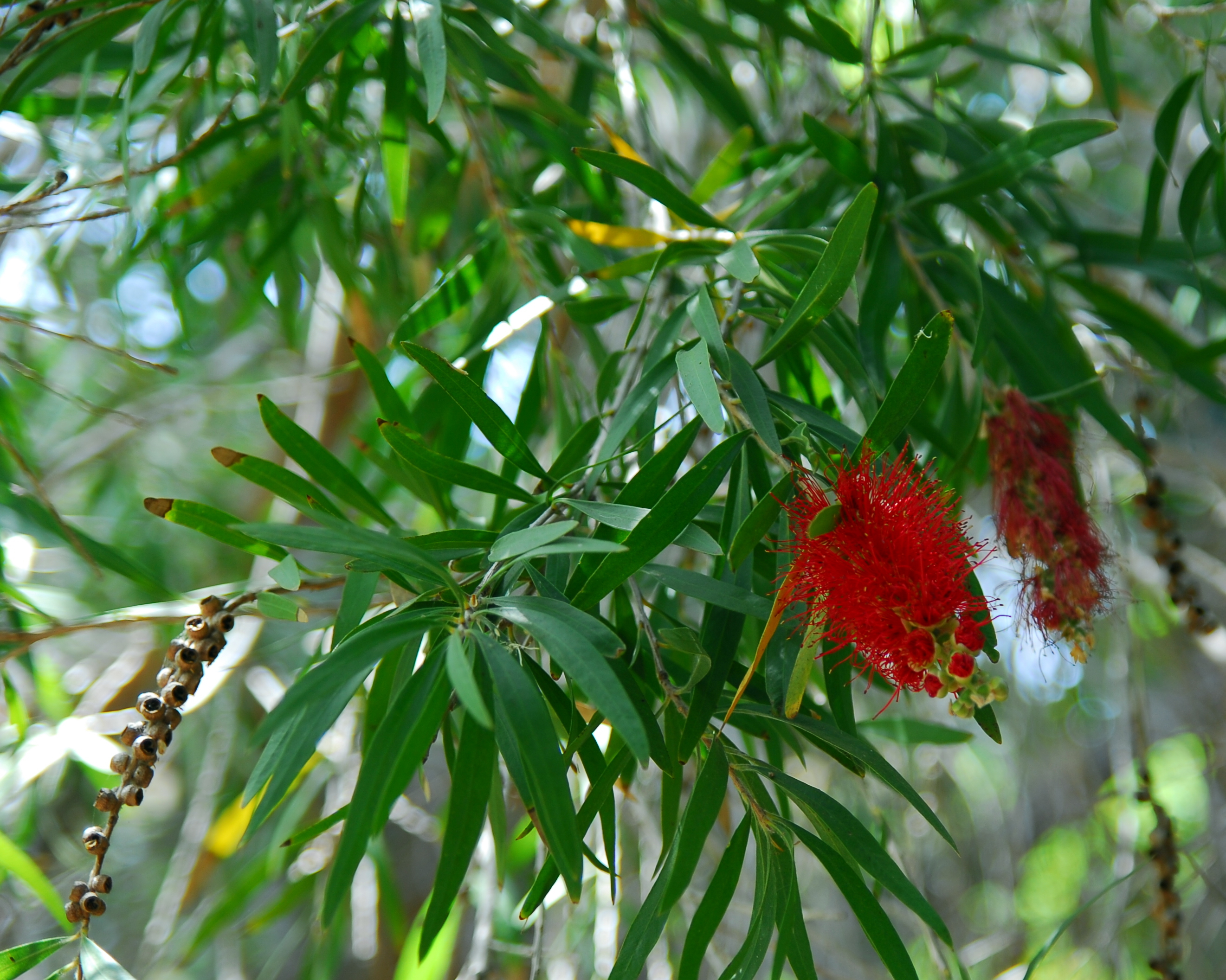 Callistemon viminalis in the Botanical Garden in Vallehermoso (La Gomera)